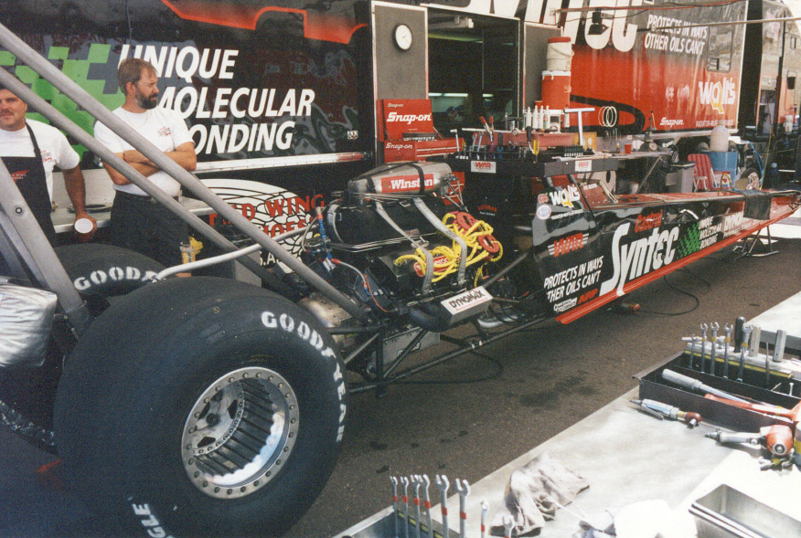 Pat Austin, Denver 1995. Austin was the #13 driver on NHRA's Top 50 driversPat Austin